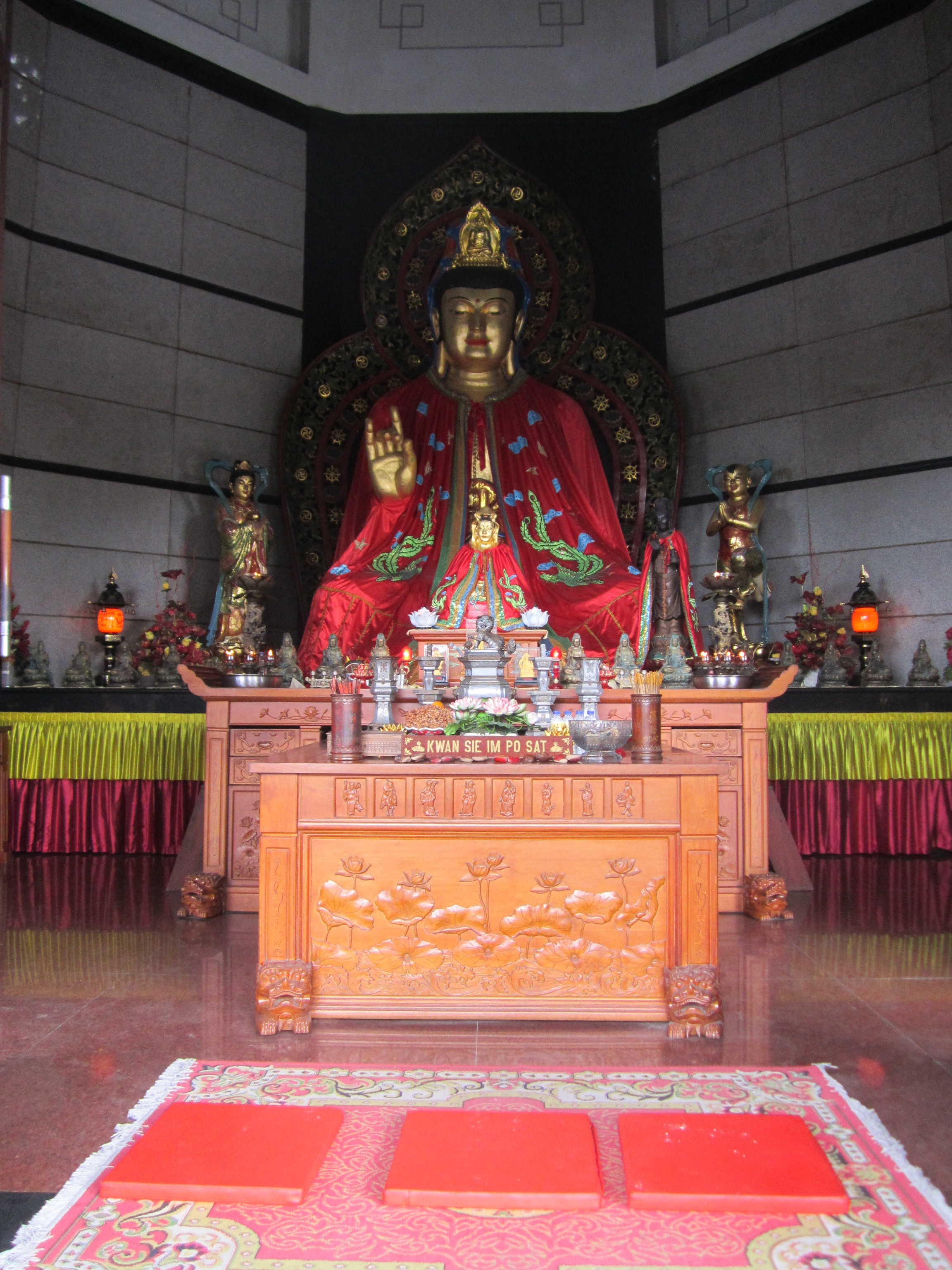 Kwan Im statue inside Pagoda Avalokitesvara, Indonesia.